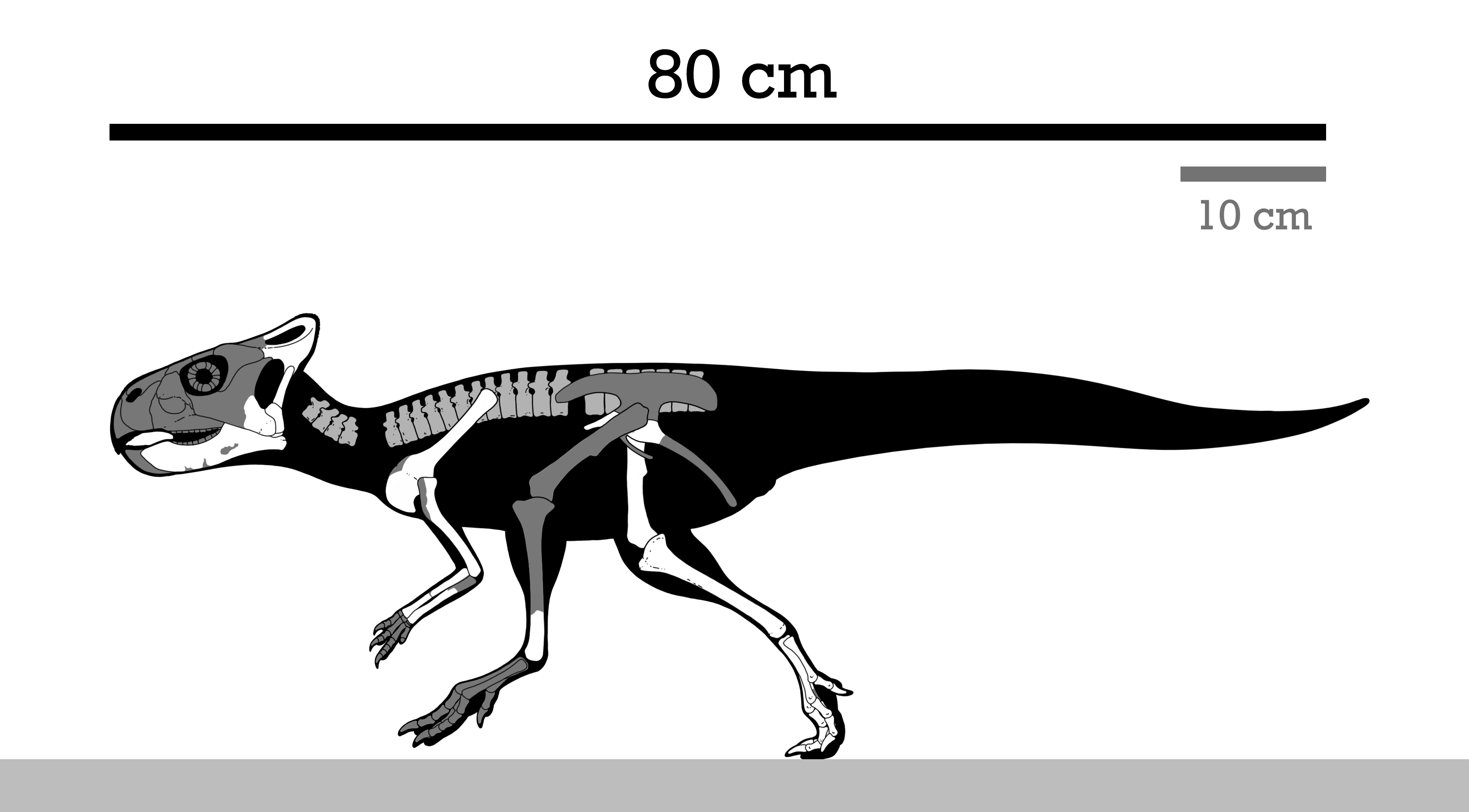 Skeletal diagram featuring the optimal remains of the holotype of Graciliceratops mongoliensis: ZPAL MgD-I/156[1], compared to a racoon. Found in the Bayan Shireh Formation, in the original description the remains were referred to the genus Microceratops (now obsolete).[2] However, Sereno in 2000 noted that there was no base for this referral, then, he created a new genus and species for this specimen.[1] The holotype is very fragmented (specially the skull), consisting of:[2] Fragmented skull; 4 cervical, 12 dorsal and 7 sacral vertebrae; right scapula; proximal end of left scapula; left coracoid; right humerus, radius and fragmentary ulna; proximal and distal end of left humerus; proximal fragments of both pubis; fragments of both illium and fragment of right ischium; right femur, tibia and nearly complete pes; distal part of left tibia, fragmentary left pes; tarsals and isolated ribs.[2] The sacral vertebrae are not fused, an indicator of the immaturity of this specimen; the estimated adult size is about 2 meters long or similar to Protoceratops.[2][1] Right quadratojugal, quadrate and fragmentary jugal were reversed in order to get an optimal view. ____________________________________________________________________________________________________________________